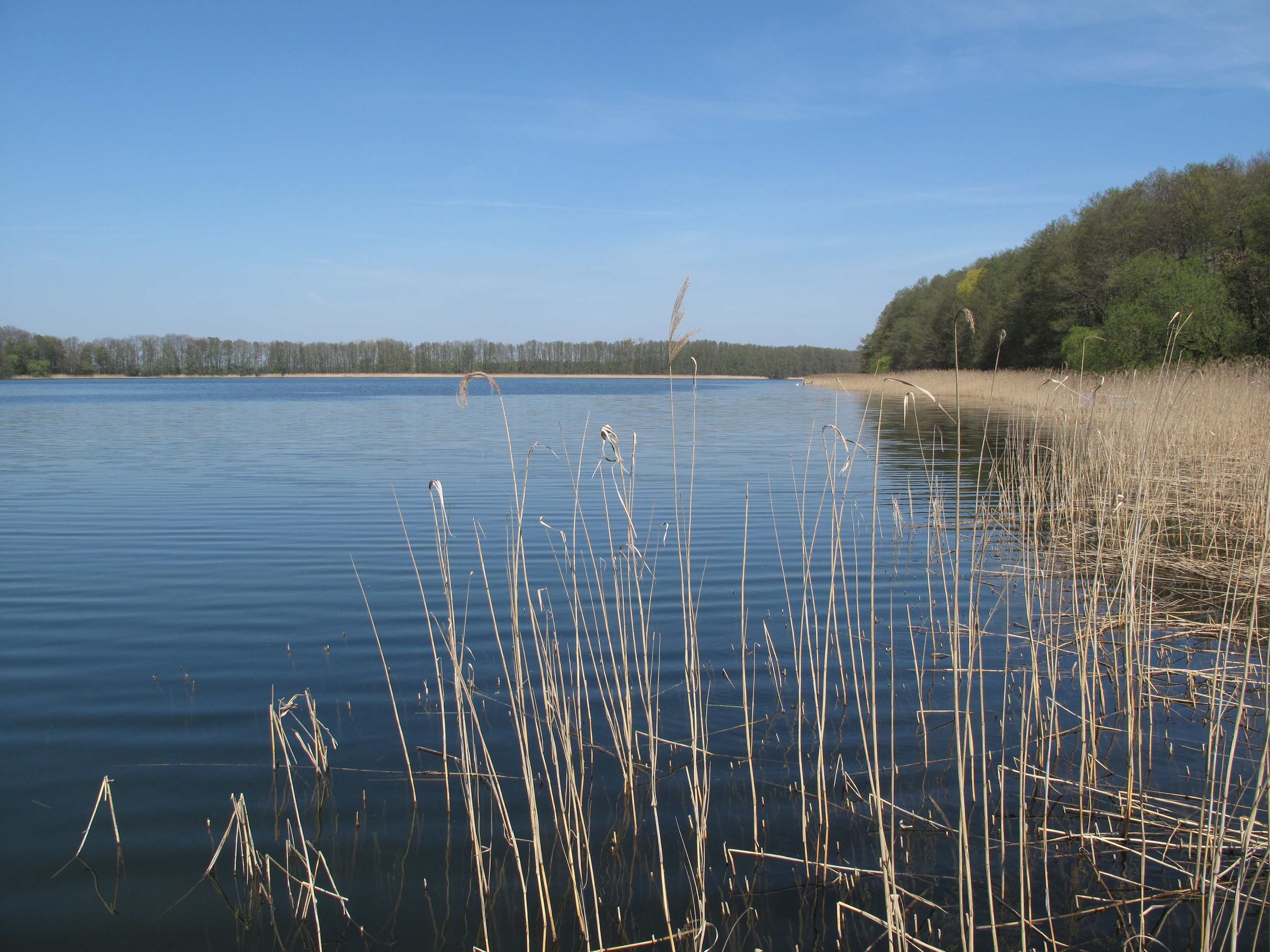 The Klostersee is a lake in Altfriedland, a village of the municipality Neuhardenberg in the District Märkisch-Oderland, Brandenburg, Germany. The lake covers 55 hectare. Its named because the former Cistercian-Kloster Friedland (Nunnery) on its eastern bank, which owned the lake in the Middle Ages.